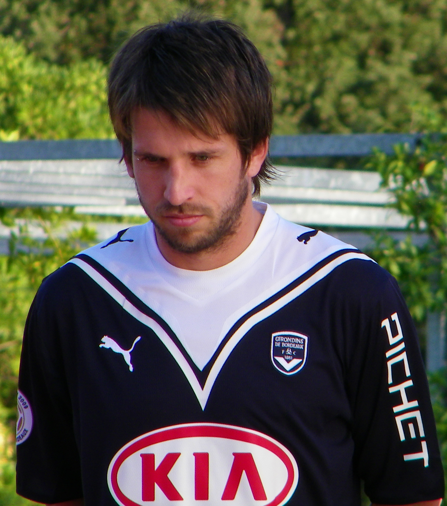 Players FC Girondins Bordeaux. Taken by Valentin Trijoulet. Public domain.